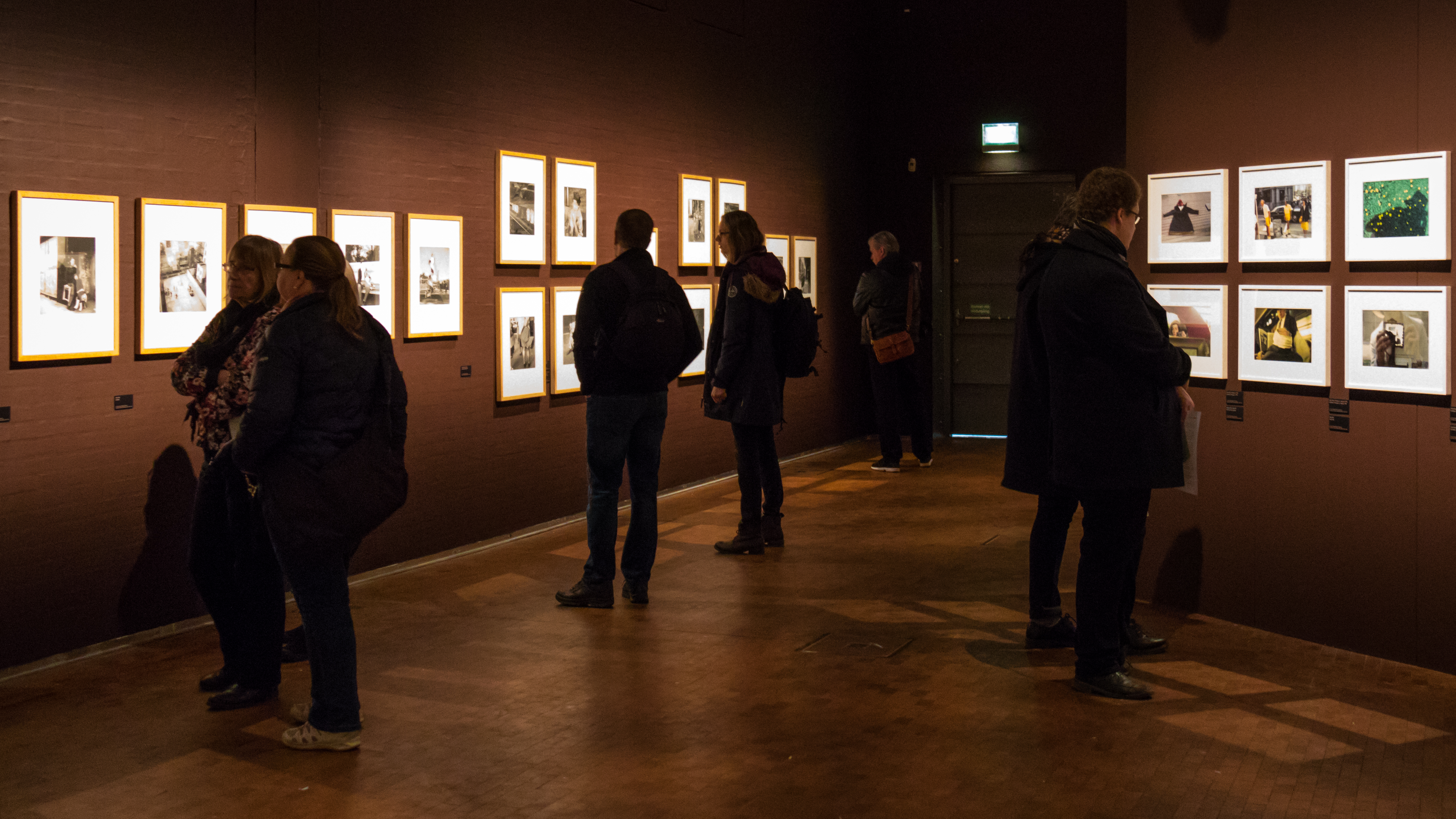 Visited an exibihition with Vivian Maiers photography at Dunkers Kulturhus in Helsingborg.